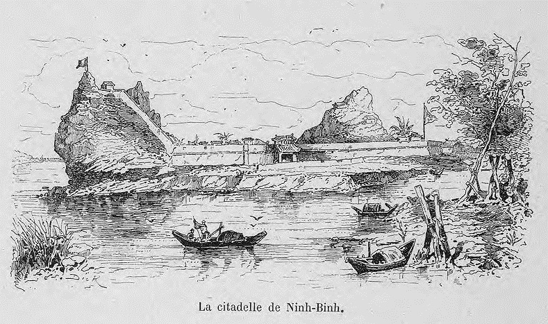 Ninh Binh Citadel.